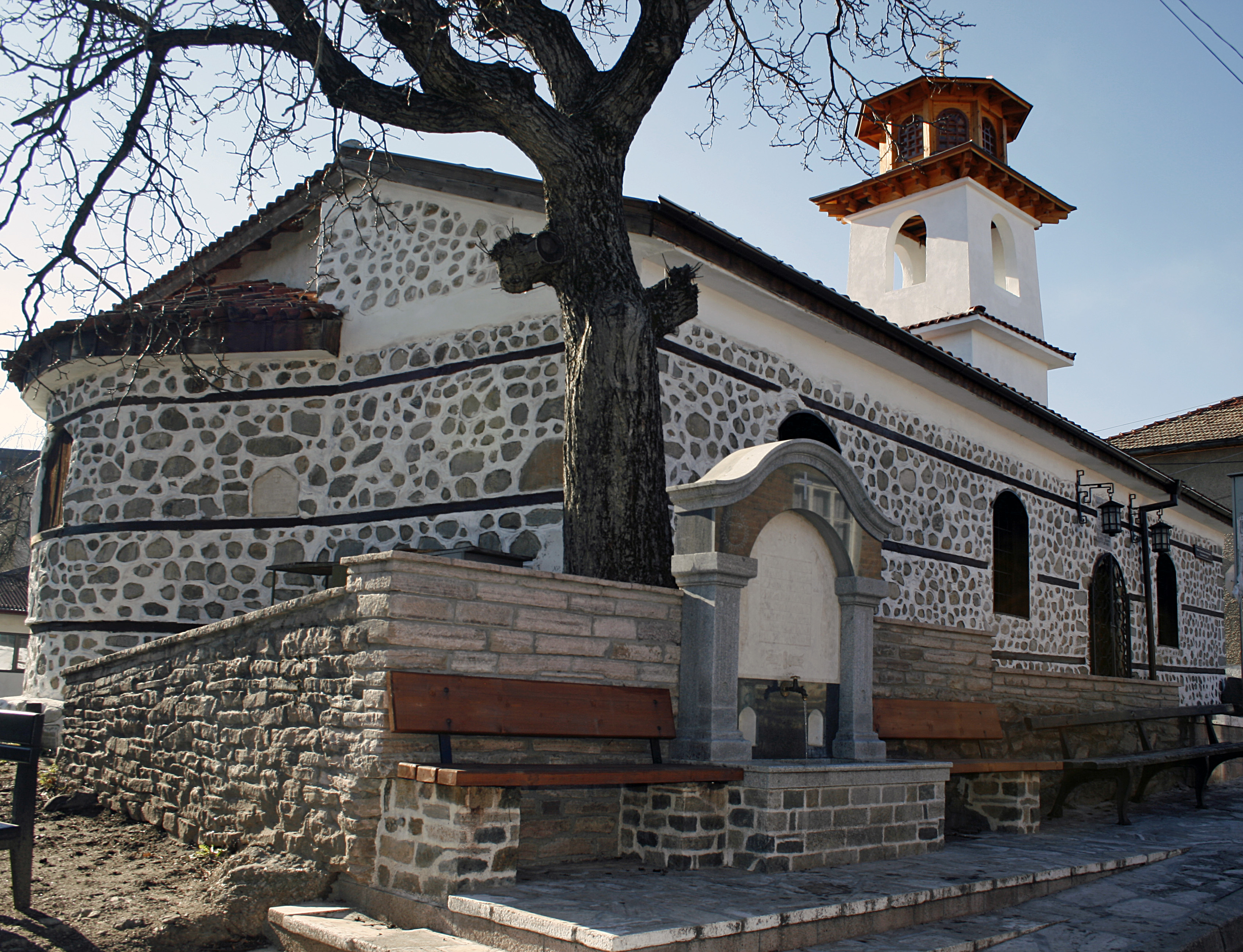 curkvata na uspenie presveta bogorodica